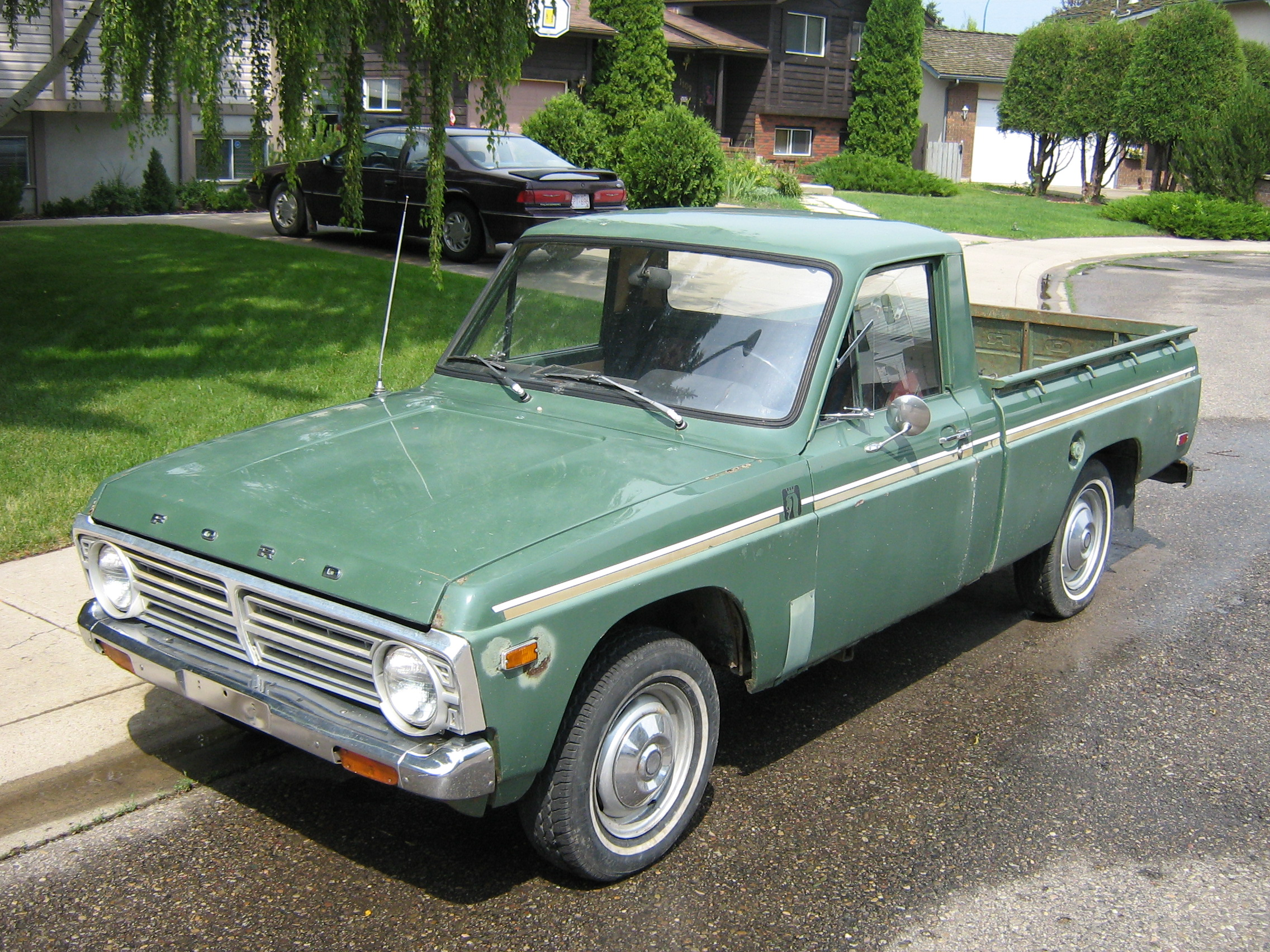 Ford Courier